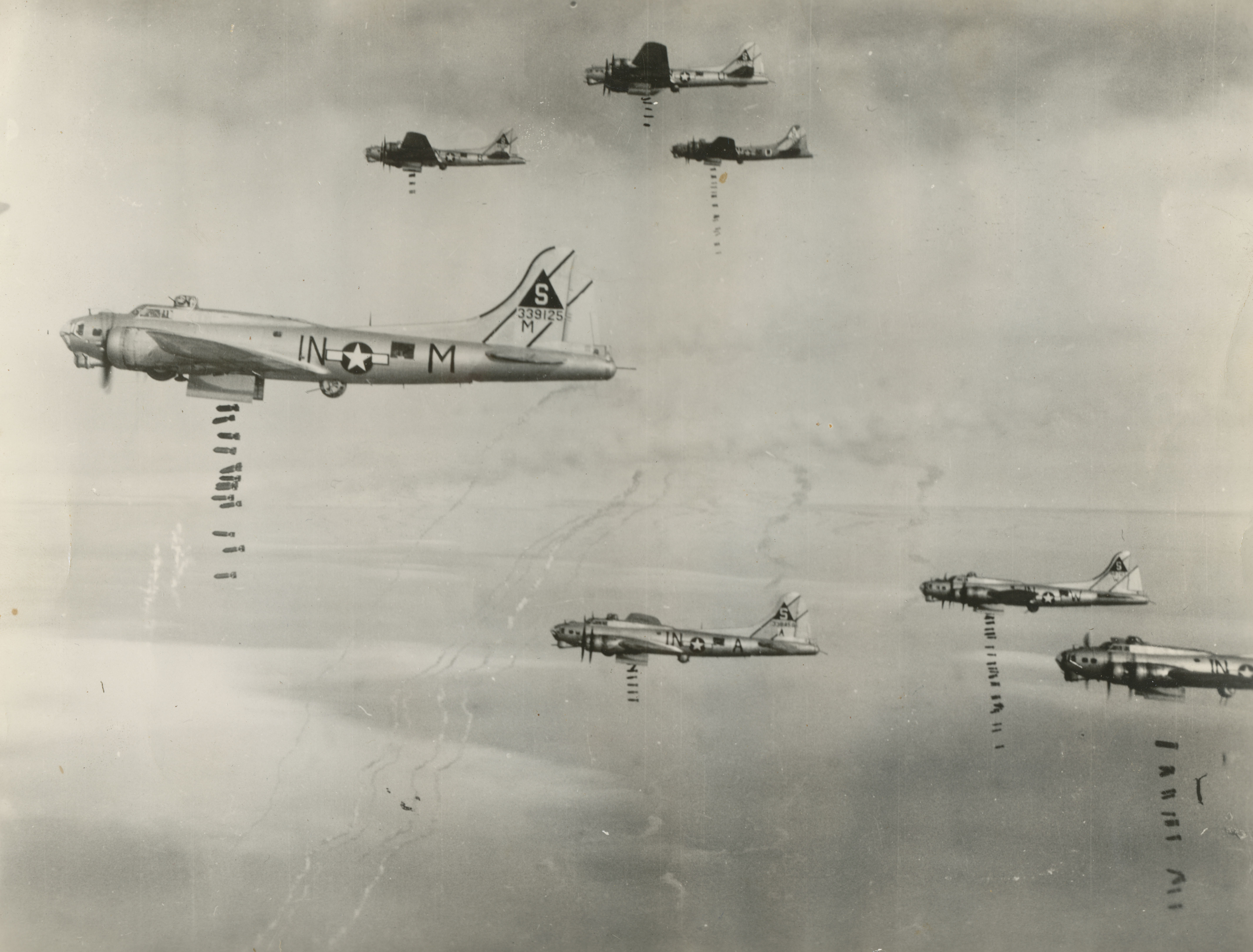 March 14, 1945. The 401st Bomb Group of the US Army Air Forces drop their bombs on the railroad marshalling yard and road junction at Lohne, Germany.